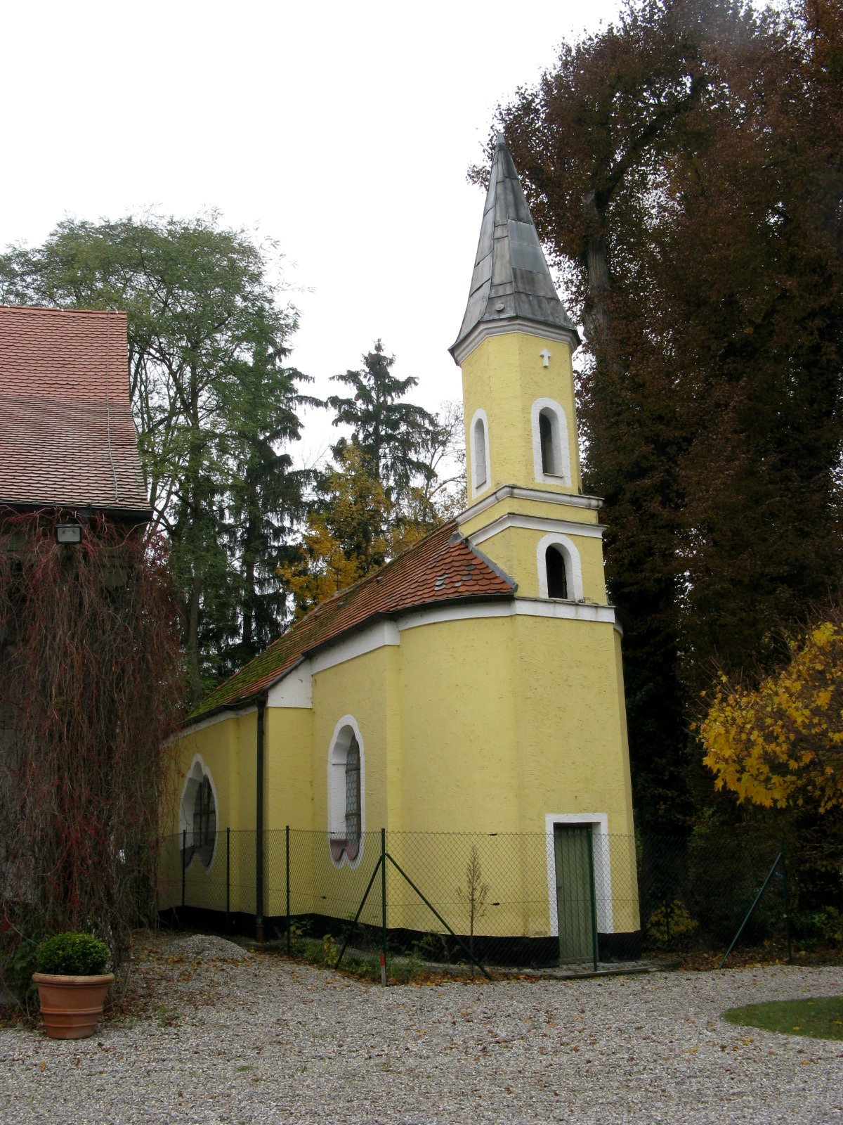 Chapel of Saint Leonard in Bannacker, Augsburg, Bavaria